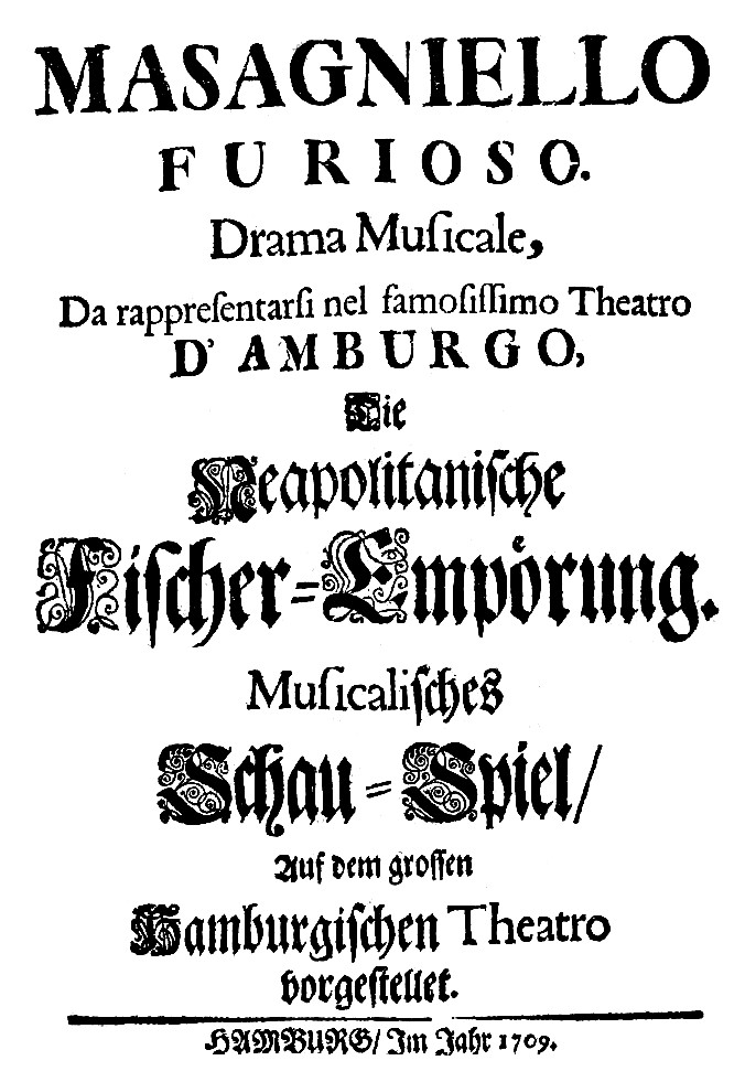 Reinhard Keiser - Masaniello furioso - titlepage of the libretto